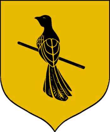 Coat of arms of House Baelish of Harrenhal in the fantasy tv series Game of Thrones. The original book version from A Song of Ice and Fire shows a field of silver mockingbirds, on a green field.